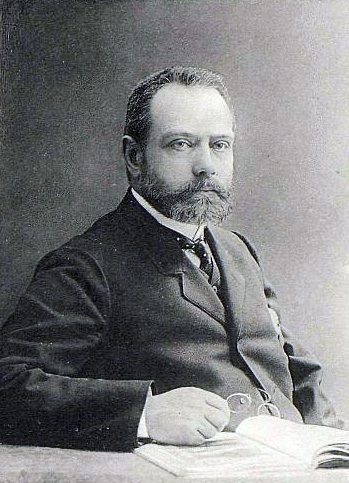 Alexander Guchkov